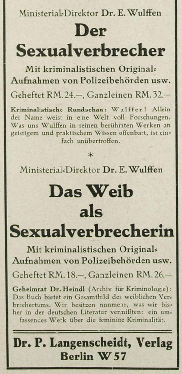 Magazine advertising for Erich Wulffen criminological nonfiction